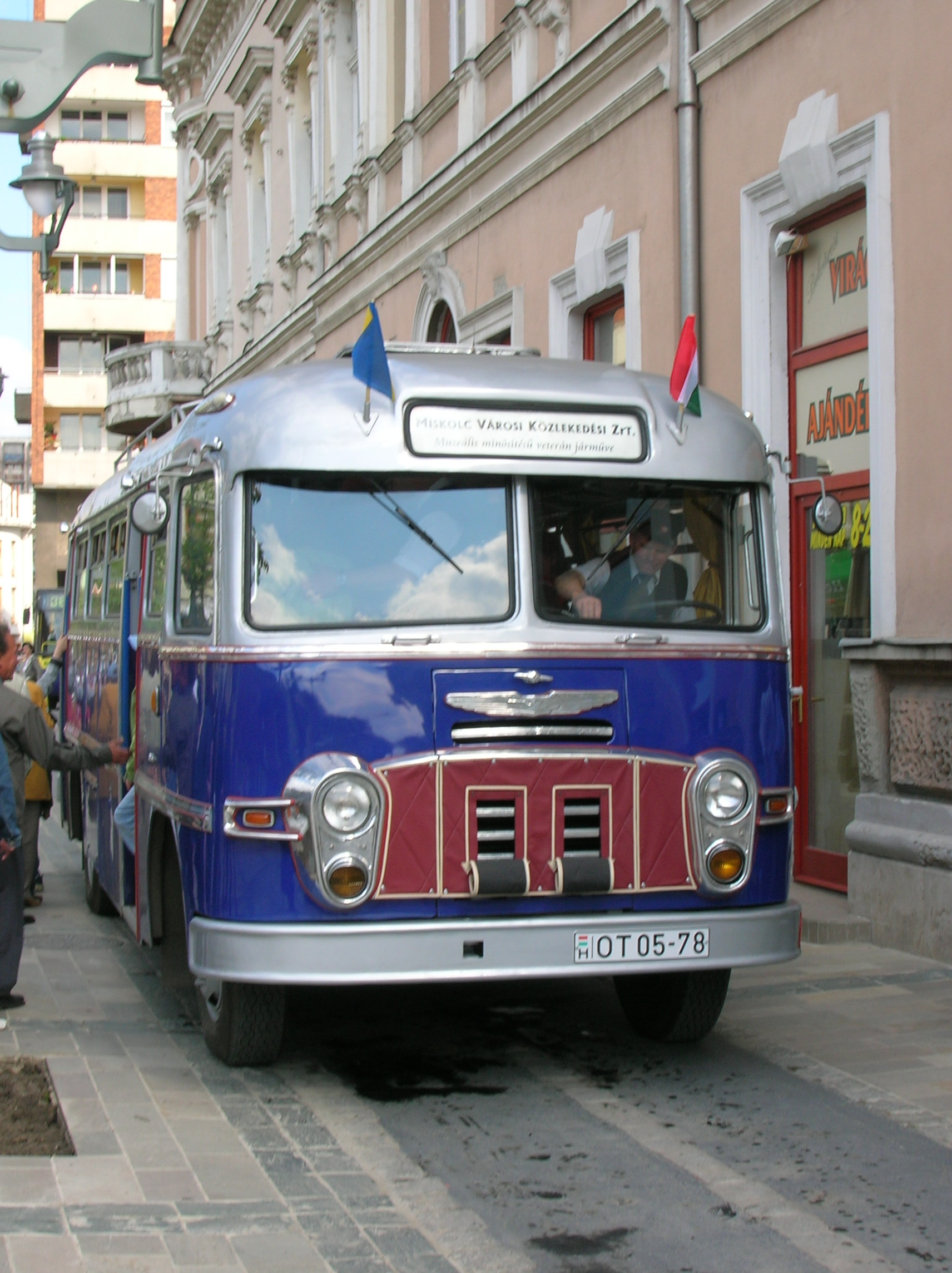 Ikarus 31, restored museum piece, built in 1959. Miskolc, Hungary.